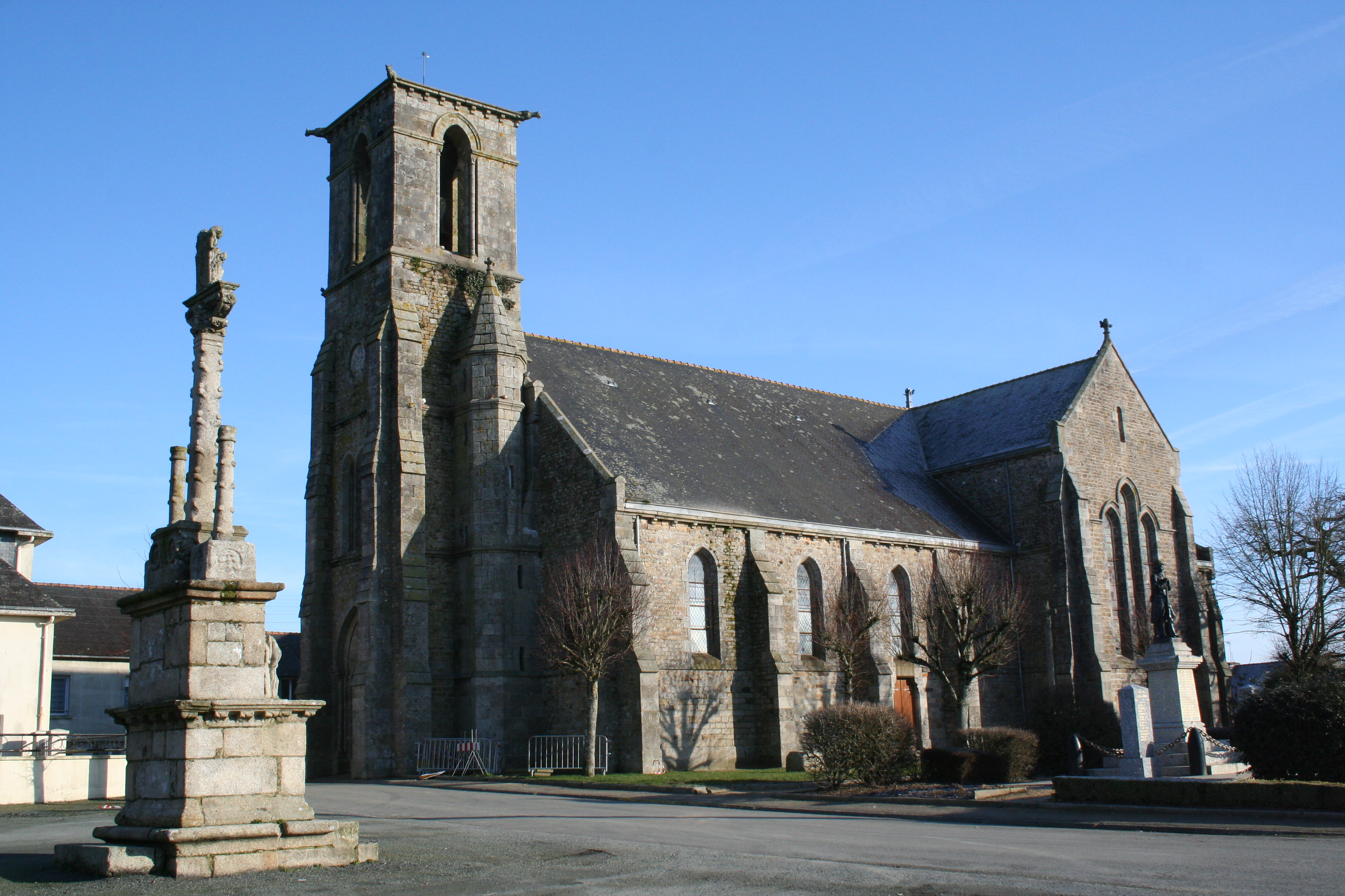 Eglise de Carnoët - Côtes d'Armor - Bretagne - France